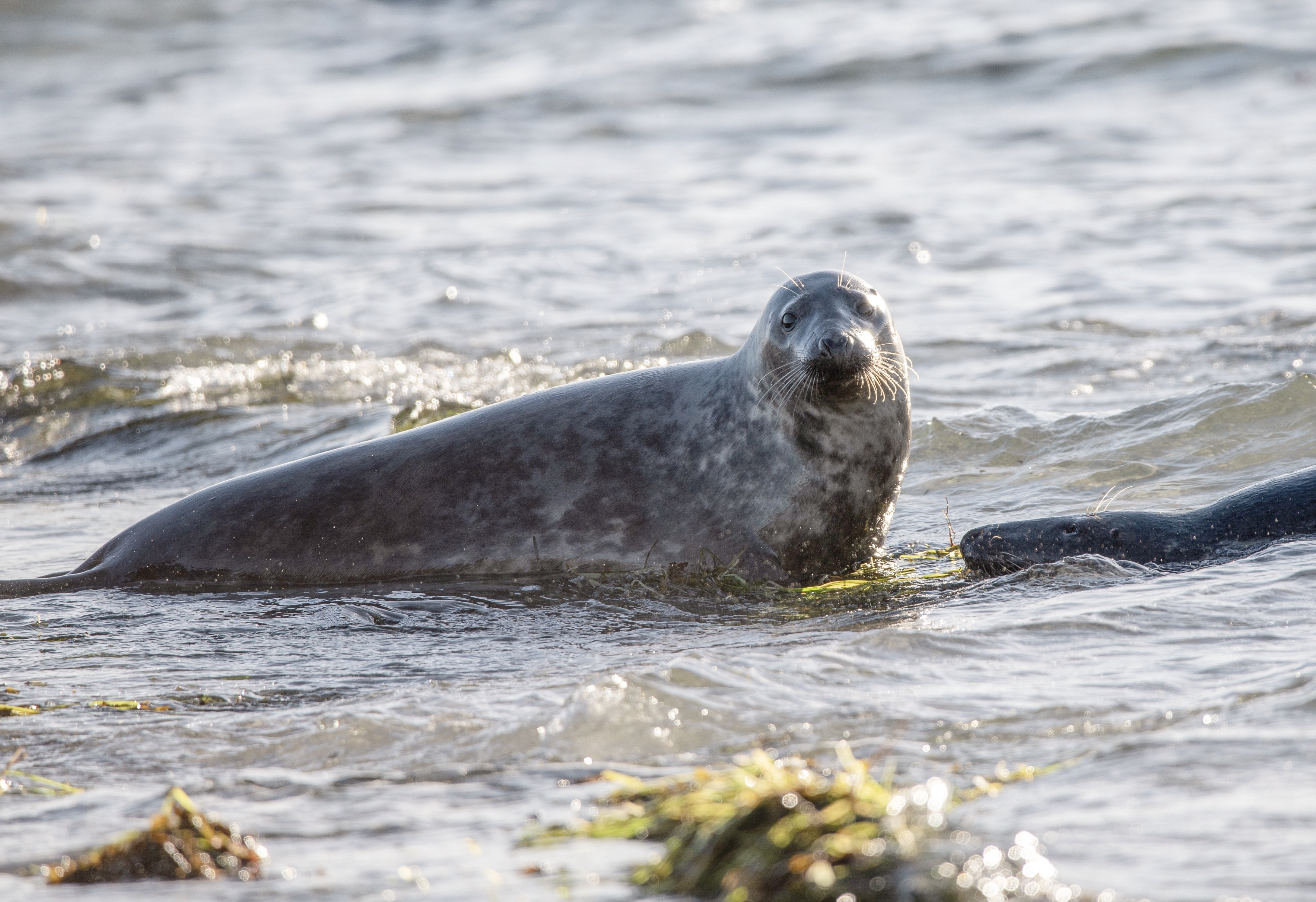 Måkläppen is a restricted area and have only open one month a year. Its a nature reserve with seals and birdlife. In this picture the seal looks curious and the other wants to play.